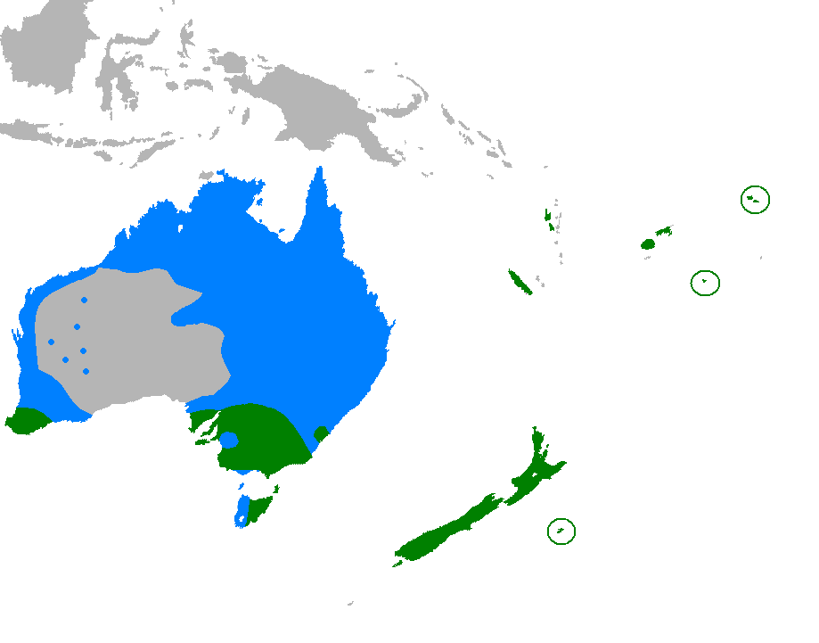 Distribution of the Australasian Swamp Harrier (Circus approximans). Green: breeding areas, blue: off-breeding distribution. Based on: James Ferguson-Lees, David A. Christie: Greifvögel der Welt. Franck-Kosmos Verlag, Stuttgart 2009. ISBN 9783440115091, p. 150.